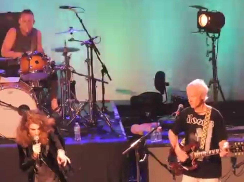 Doors Manzarek Memorial Concert with Andrew Watt